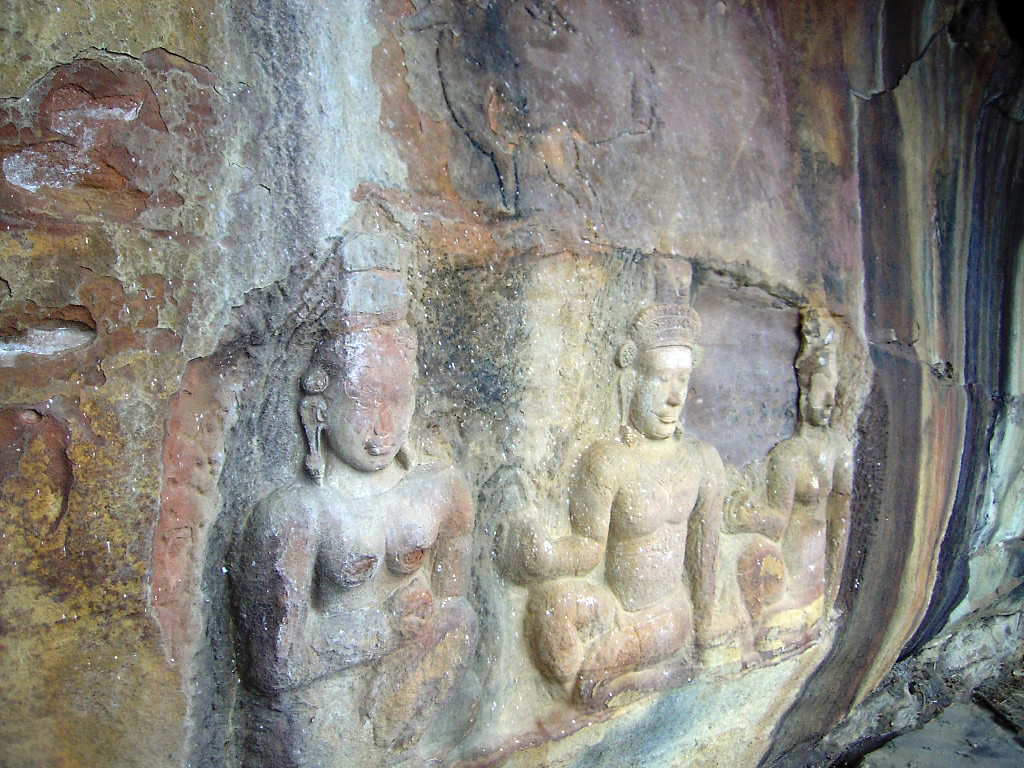 Mo I Daeng rock art discovered in 1987 by Border Protection Ranger Unit, Suranari Brigade, Amphoe Kantharalak, Sisaket Province, Thailand.